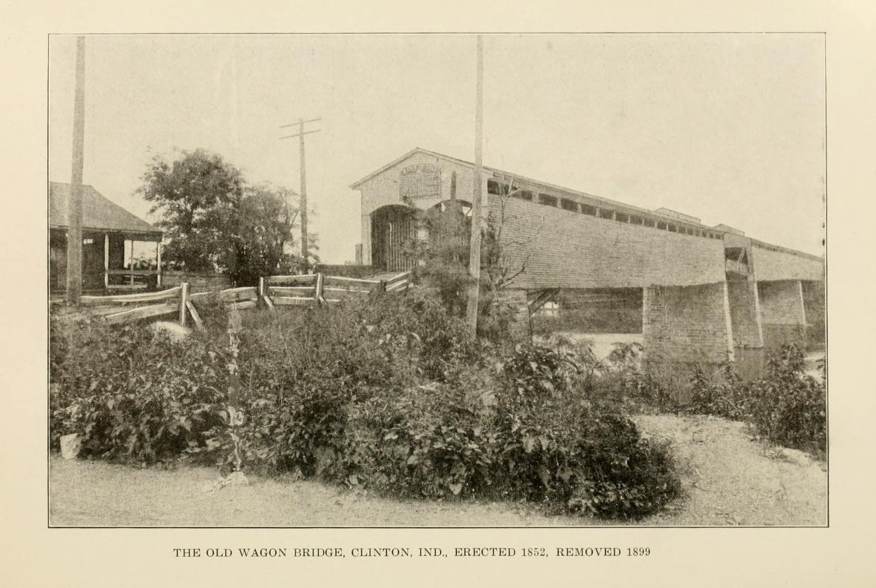 Photograph of a covered bridge in Clinton, Vermillion County, Indiana, constructed in 1852 and removed in 1899.